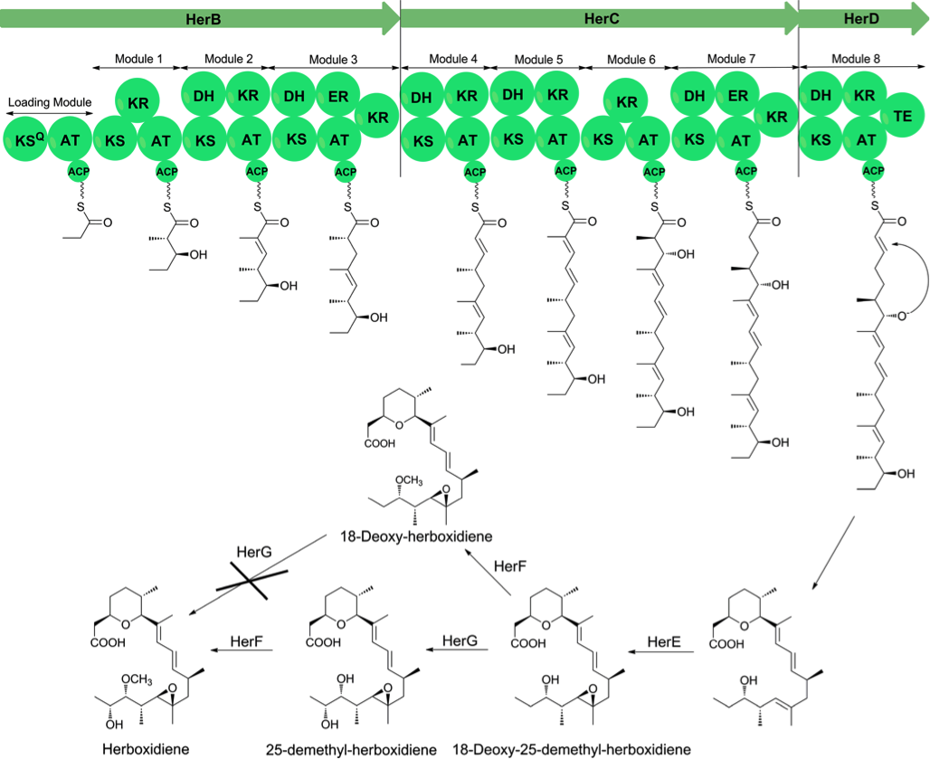 This diagram shows the detailed biosynthesis of herboxidiene/ GEX 1A, which includes a PKS I pathway and several modification after polyketide synthesis.